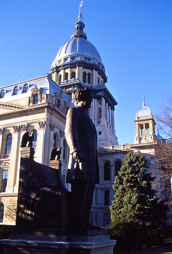 Richard Yates statue by Albin Polasic at the Illinois State Capitol in Springfield, Illinois